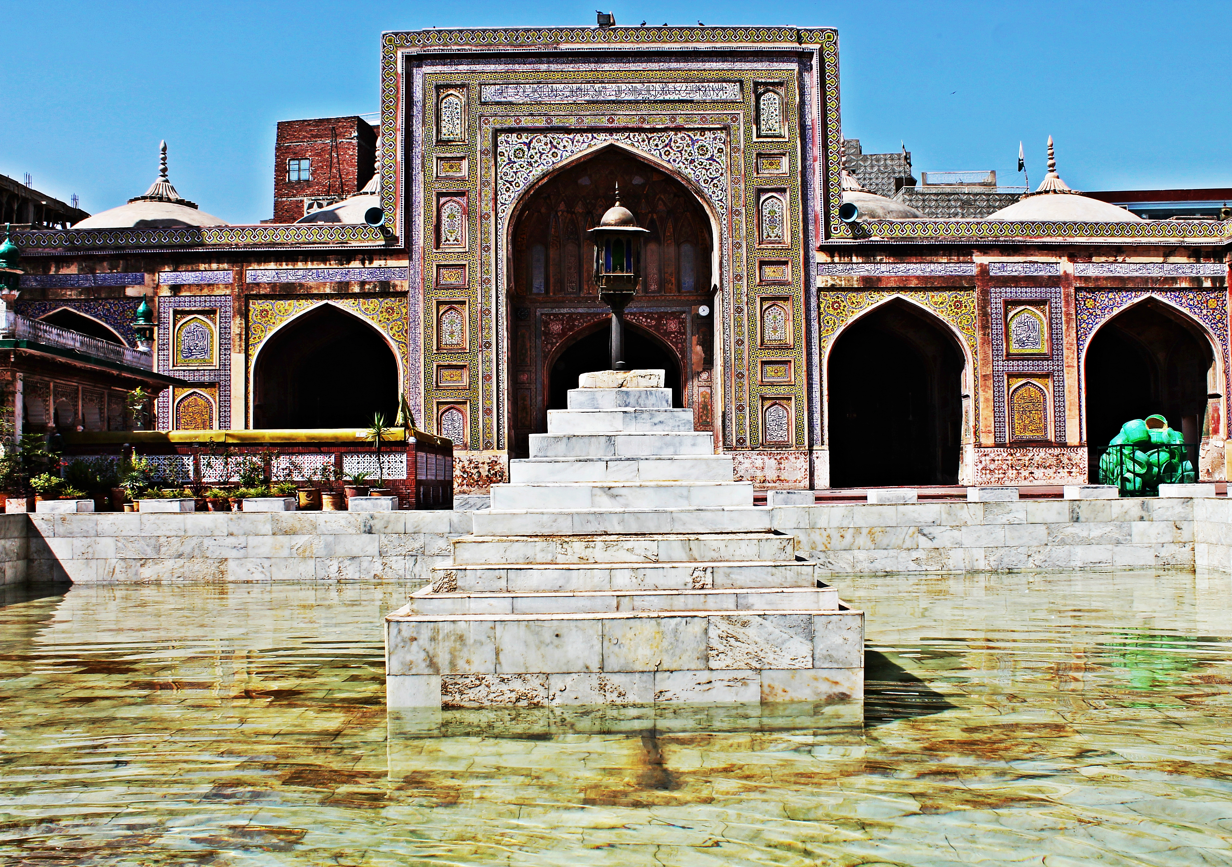 Wazir Khan Mosque This is a photo of a monument in Pakistan identified as the PB-100